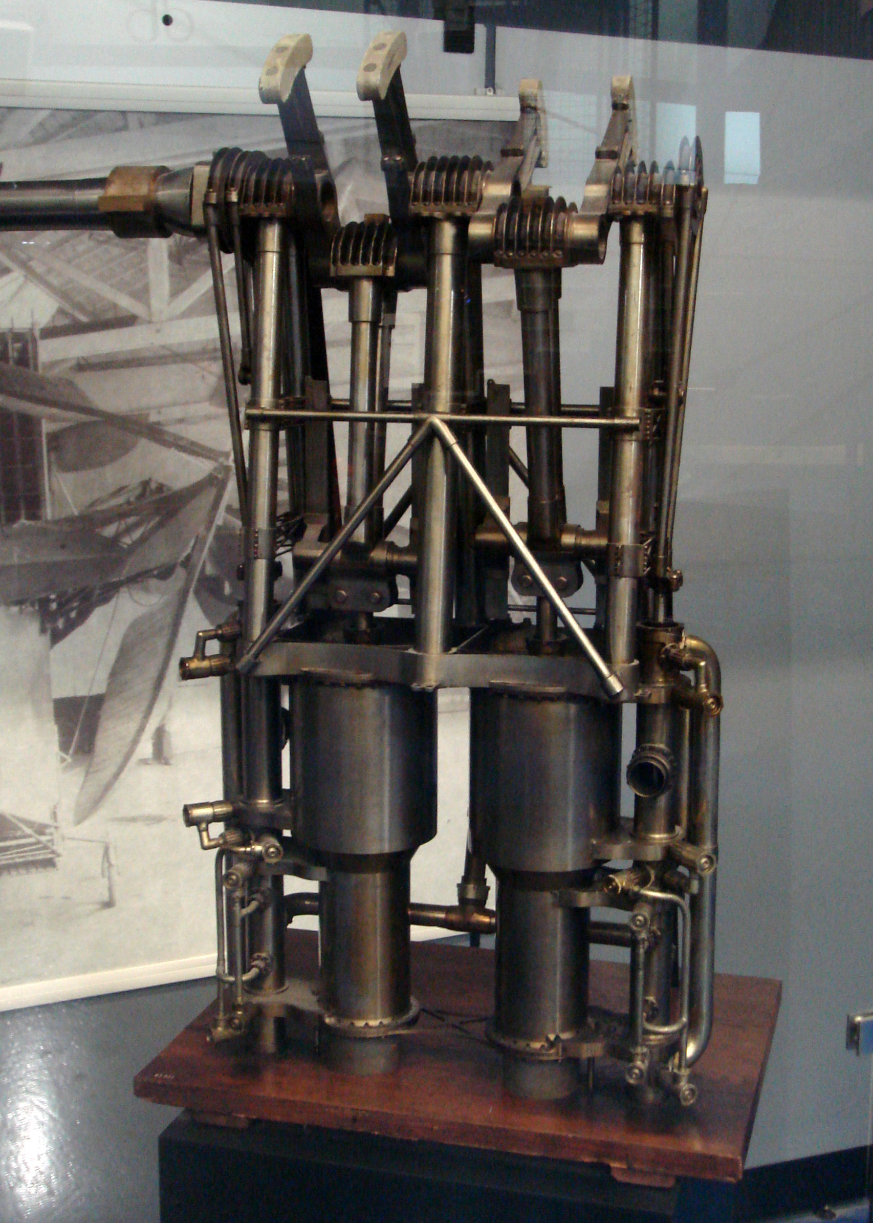 Moteur_Ader_1892_developed_for_Avion_II